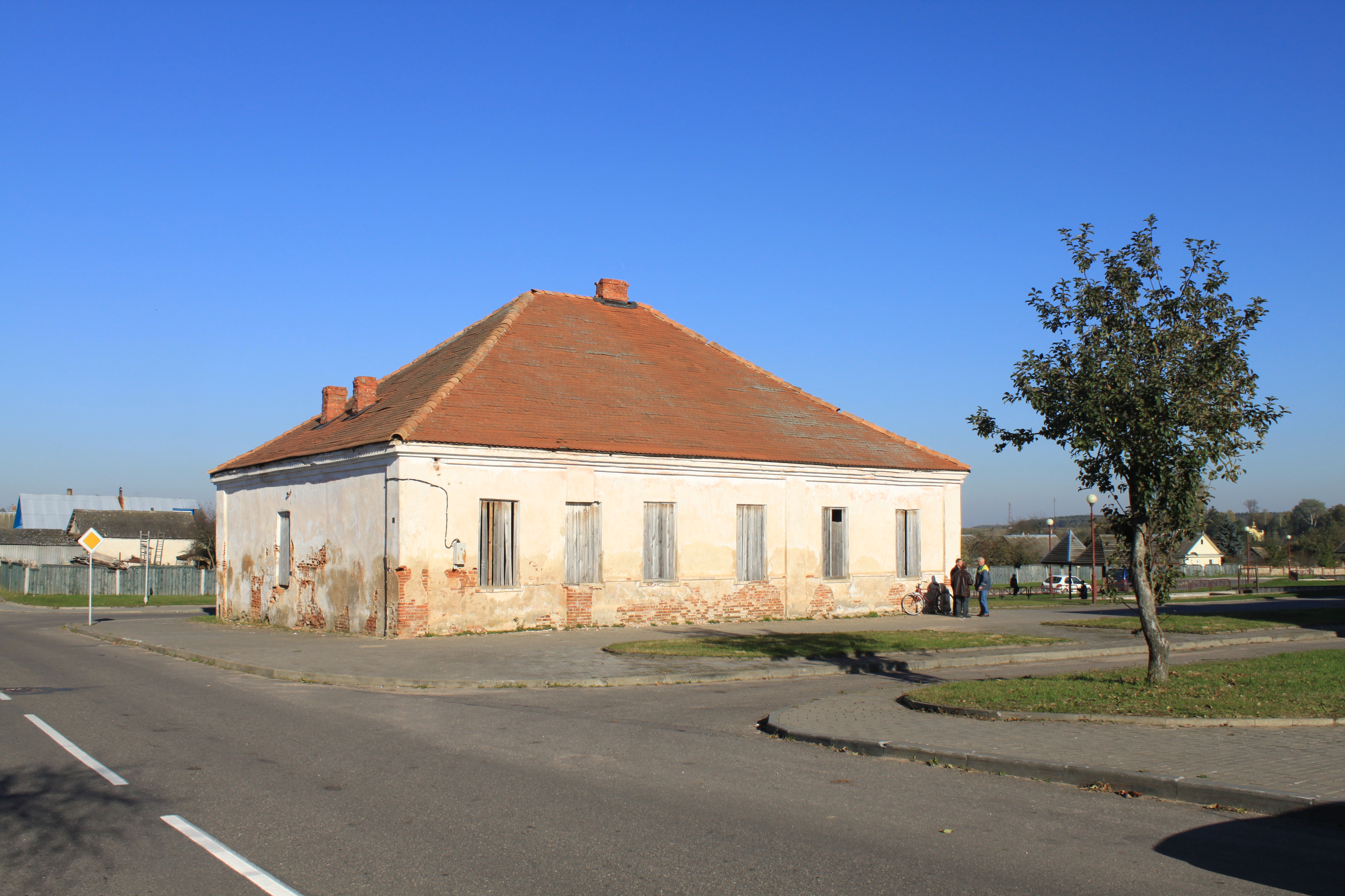 A former synagogue in Mir, Belarus Беларуская (тарашкевіца): Будынак былой сынагогі ў Міры